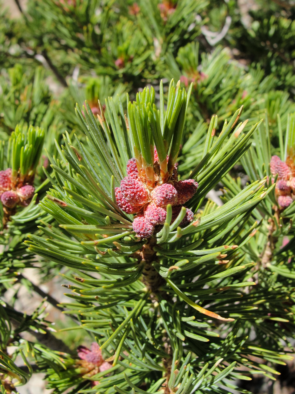 Whitebark Pine Pinus albicaulis pollen cones, on Mount Tallac Trail, Desolation Wilderness, Sierra Nevada, California.